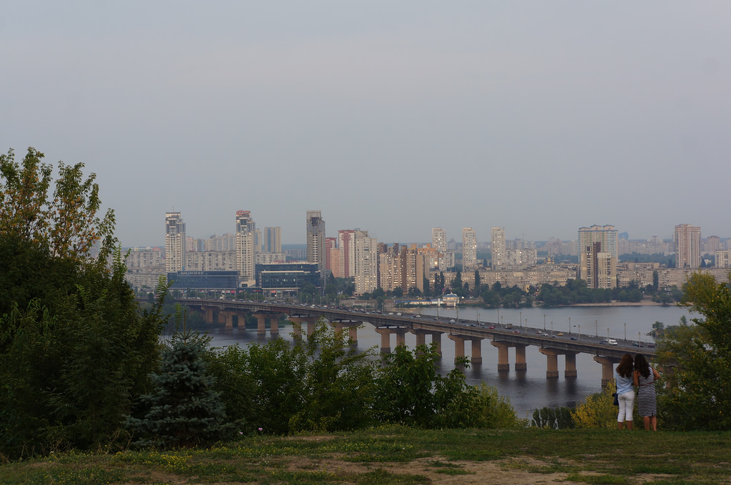 View on the Left Bank neighbourhood of Kyiv, with Paton Bridge in the foreground